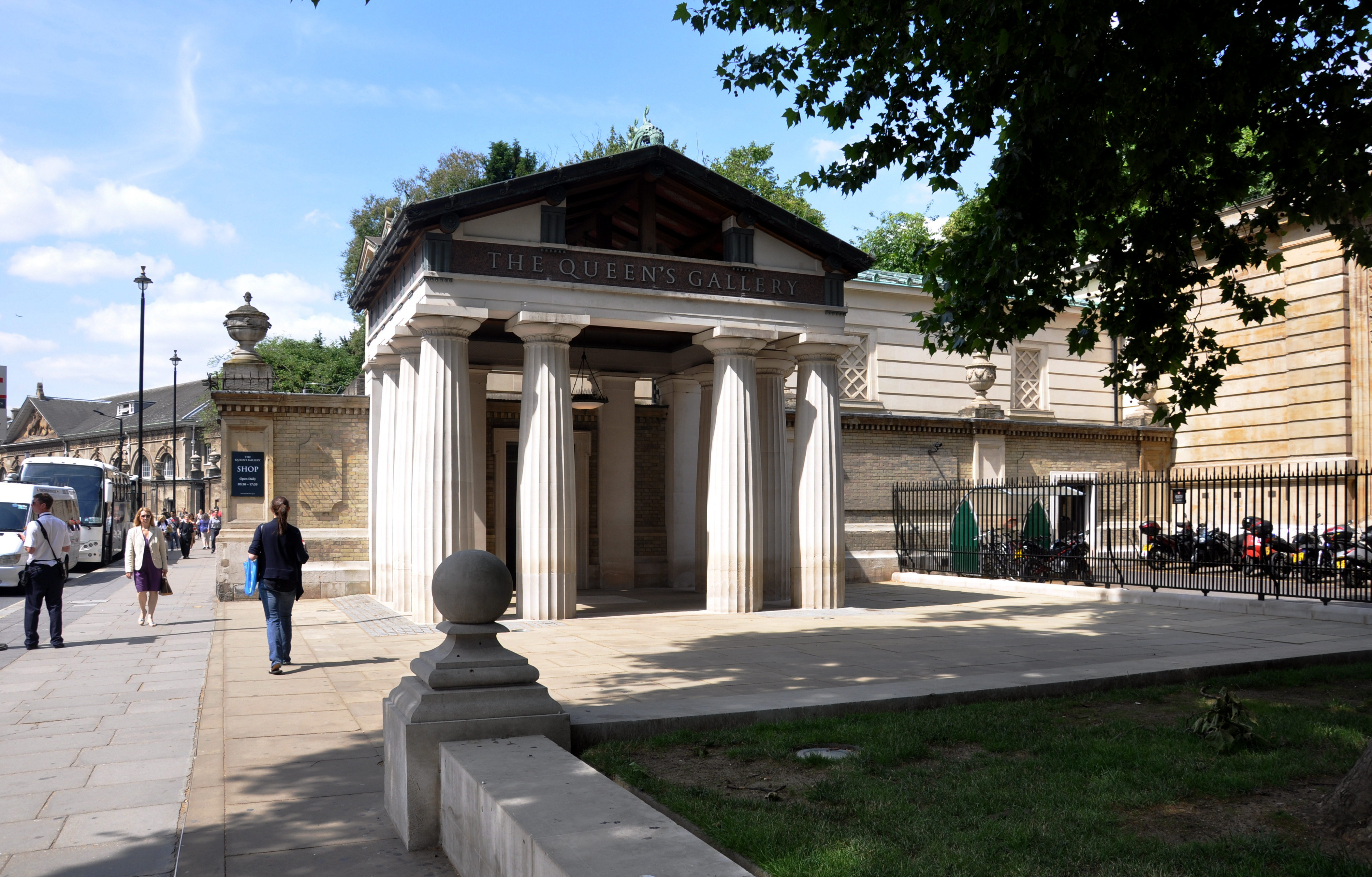 London, Queen's Gallery (at Buckingham Palace)